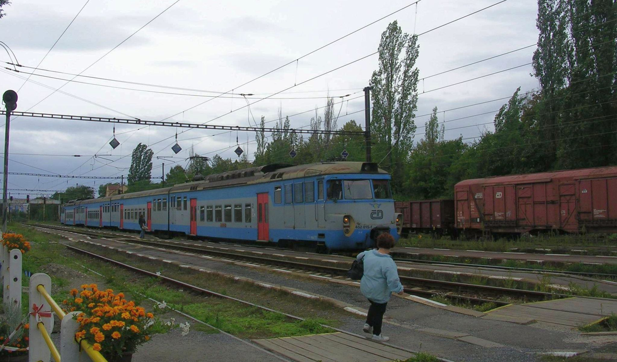 Hostivař, Prague, the Czech Republic. A train at Praha-Hostivař station.